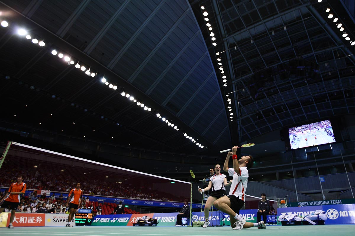 SEPTEMBER 26, 2009 - Badminton : Yonex Open Japan 2009 at Tokyo Metropolitan Gymnasium on September 24, 2009 in Tokyo, Japan. Joachim Fischer Nielsen and Christinna Pedersen won over Nova Widianto and Lilyana Natsir in the semifinals. (Photo by Tsutomu Takasu)